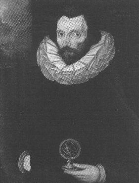 Portrait of Henry Howard, 1st Earl of Northampton